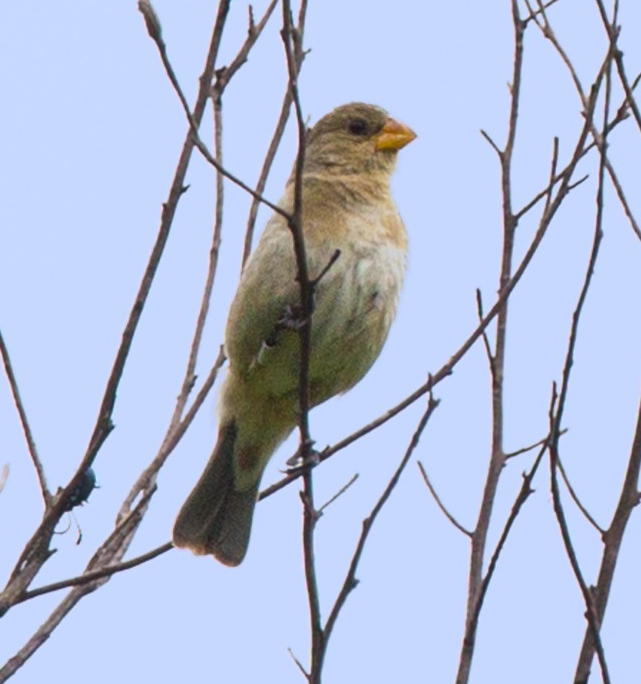 Tropeiro seedeater (female) at Lages - SC - Brazil